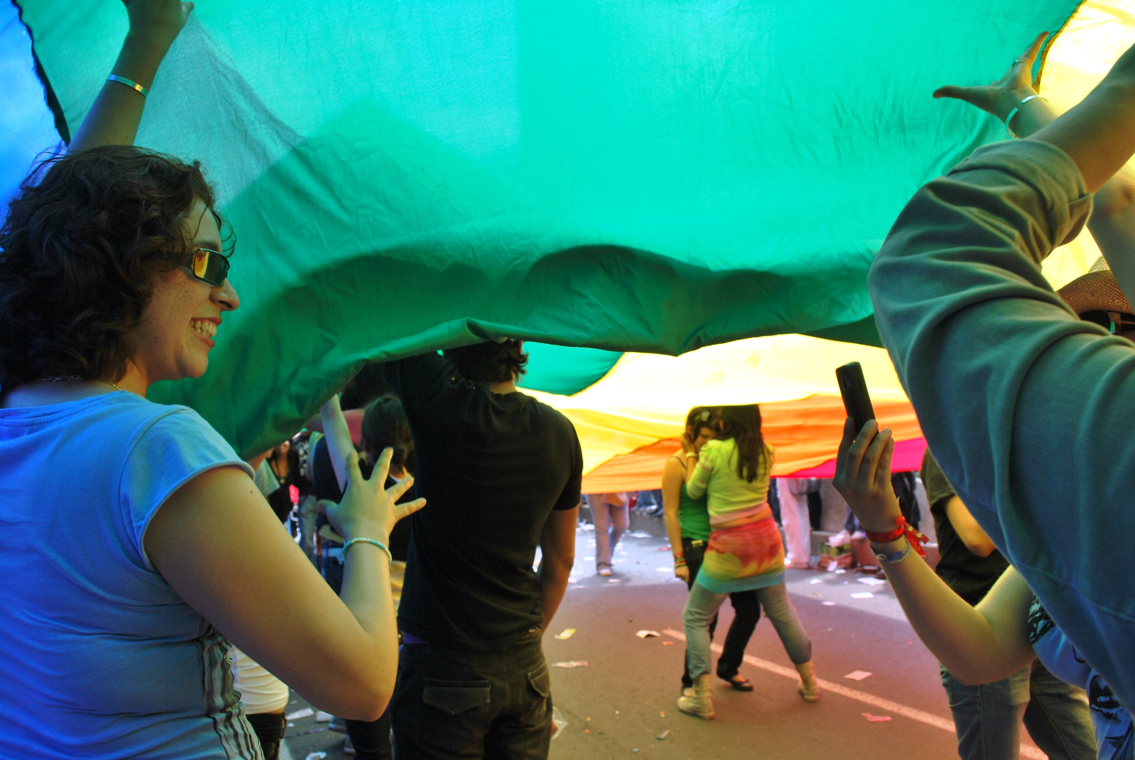 Underneath as a HUGE gay pride flag passes along Reforma at the 2009 Marcha Gay in Mexico City